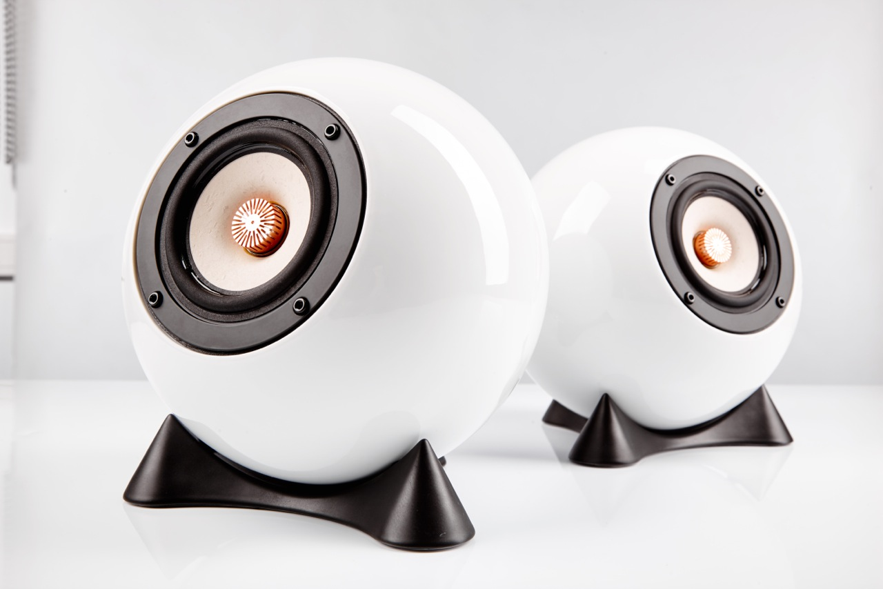 Spherical Speaker of three times fired hard porcelain Vienna Porcelain Manufactory with full-range speaker as a point source.